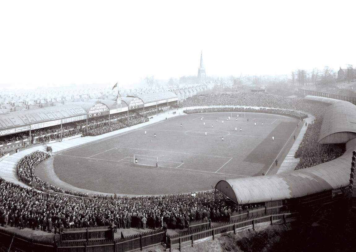 Photo of Villa Park during a match against Liverpool in 1907